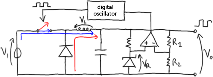 Circuit diagram of a buck switching regulator stabilized by feedback control